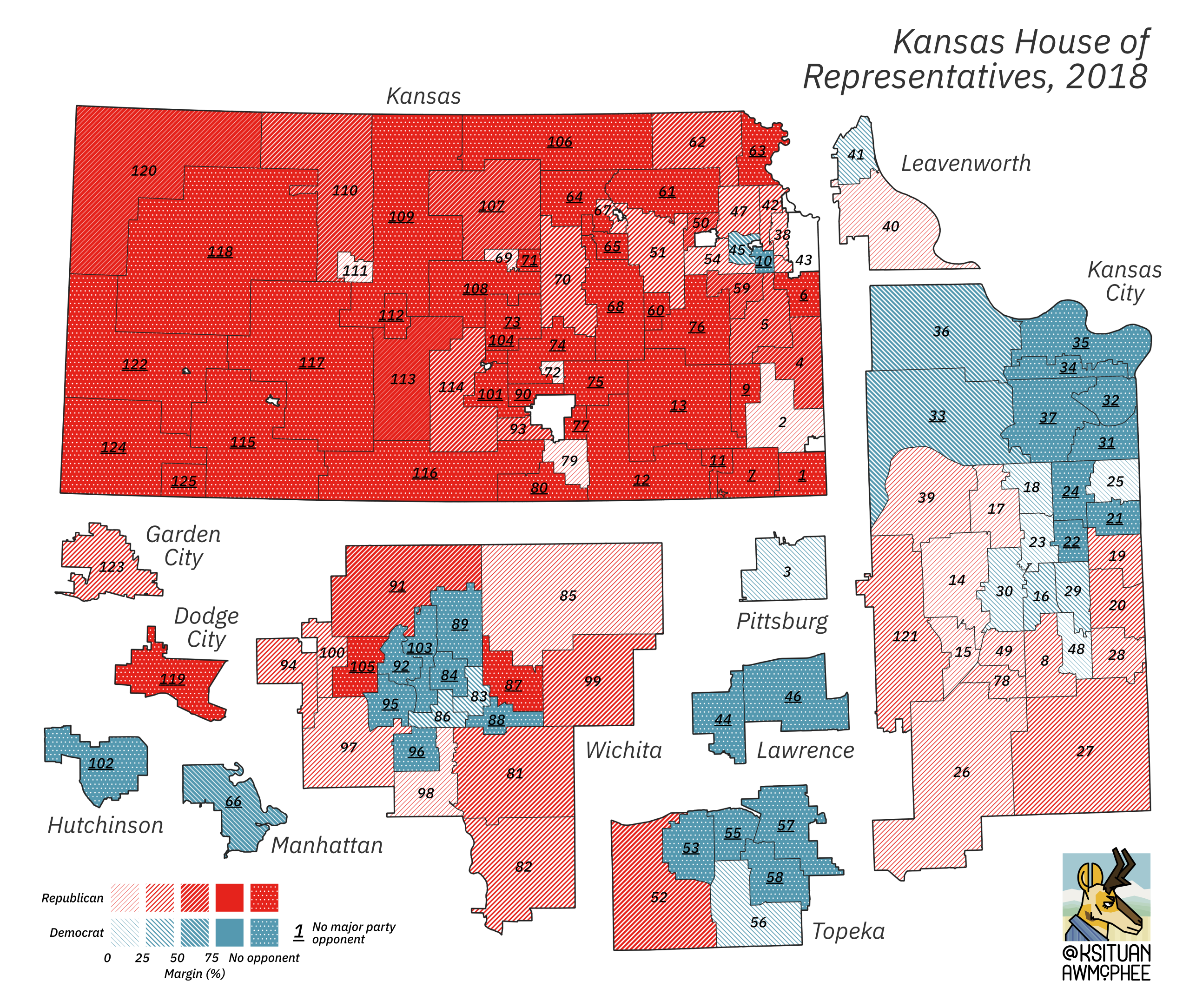 A series of state legislative election maps, created from open data during the summer of 2020. Their common visual style is designed to accomodate all of the unique features of American democracy. They were created using QGIS and Inkscape, two free programs. Please use freely and contact the author with any inquiries about visualizing election data with open-source tools.